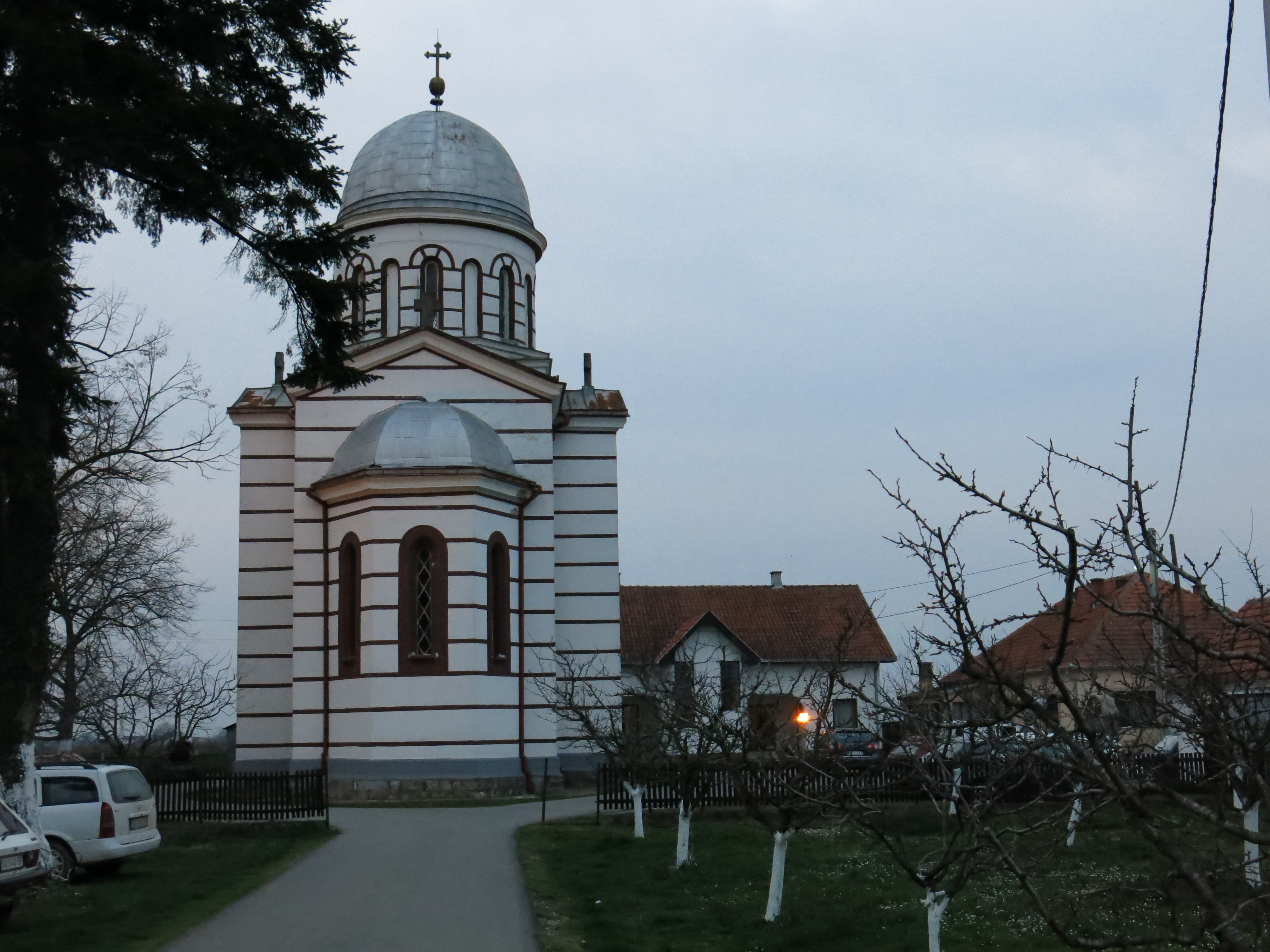 Zminjak, Church of the Ascension